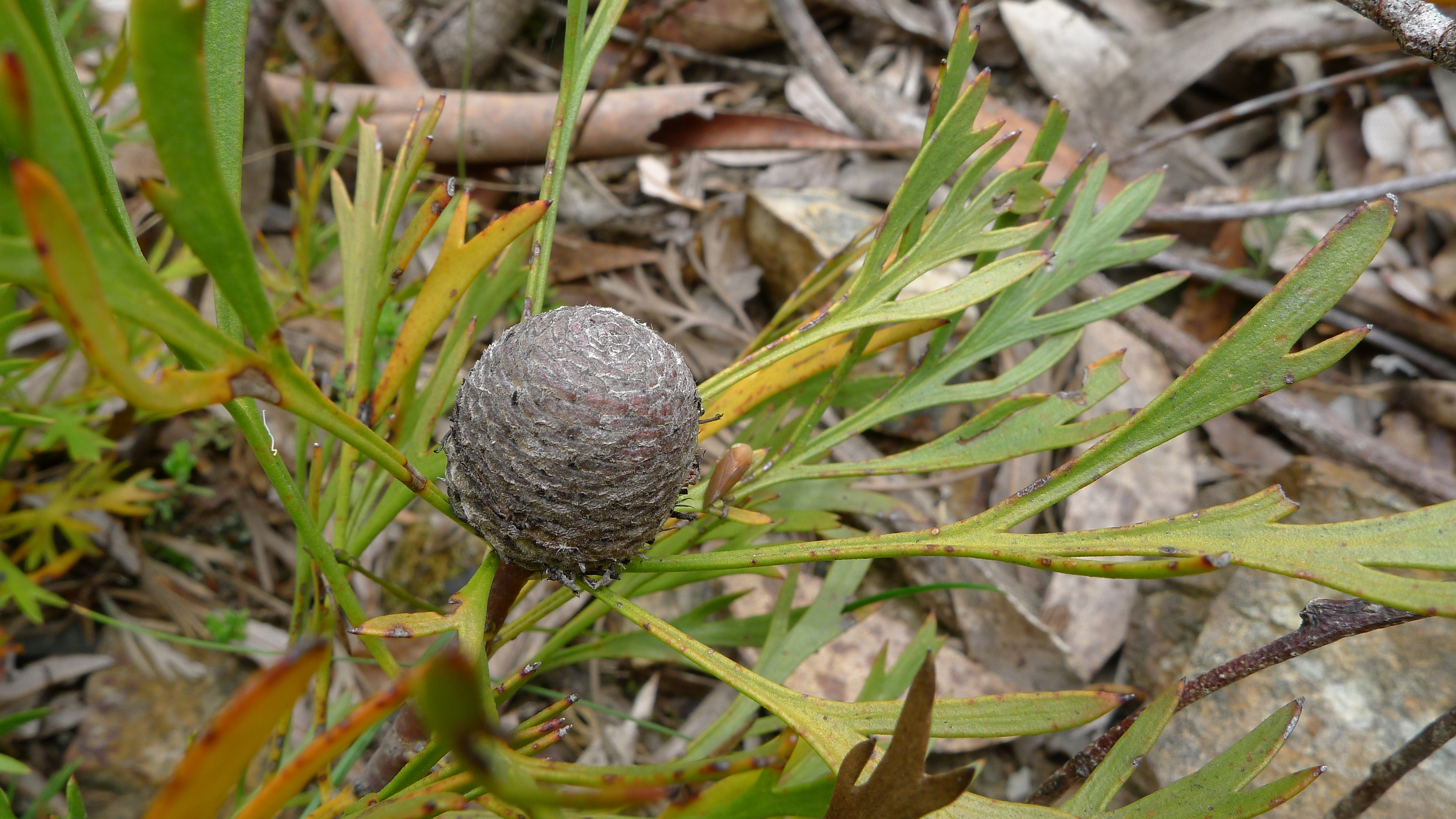 Broad-leaved Drumsticks, Isopogon anemonifolius. Cone is about 12 mm diameter. Wog Wog, Morton National Park, NSW Australia, November 2012.